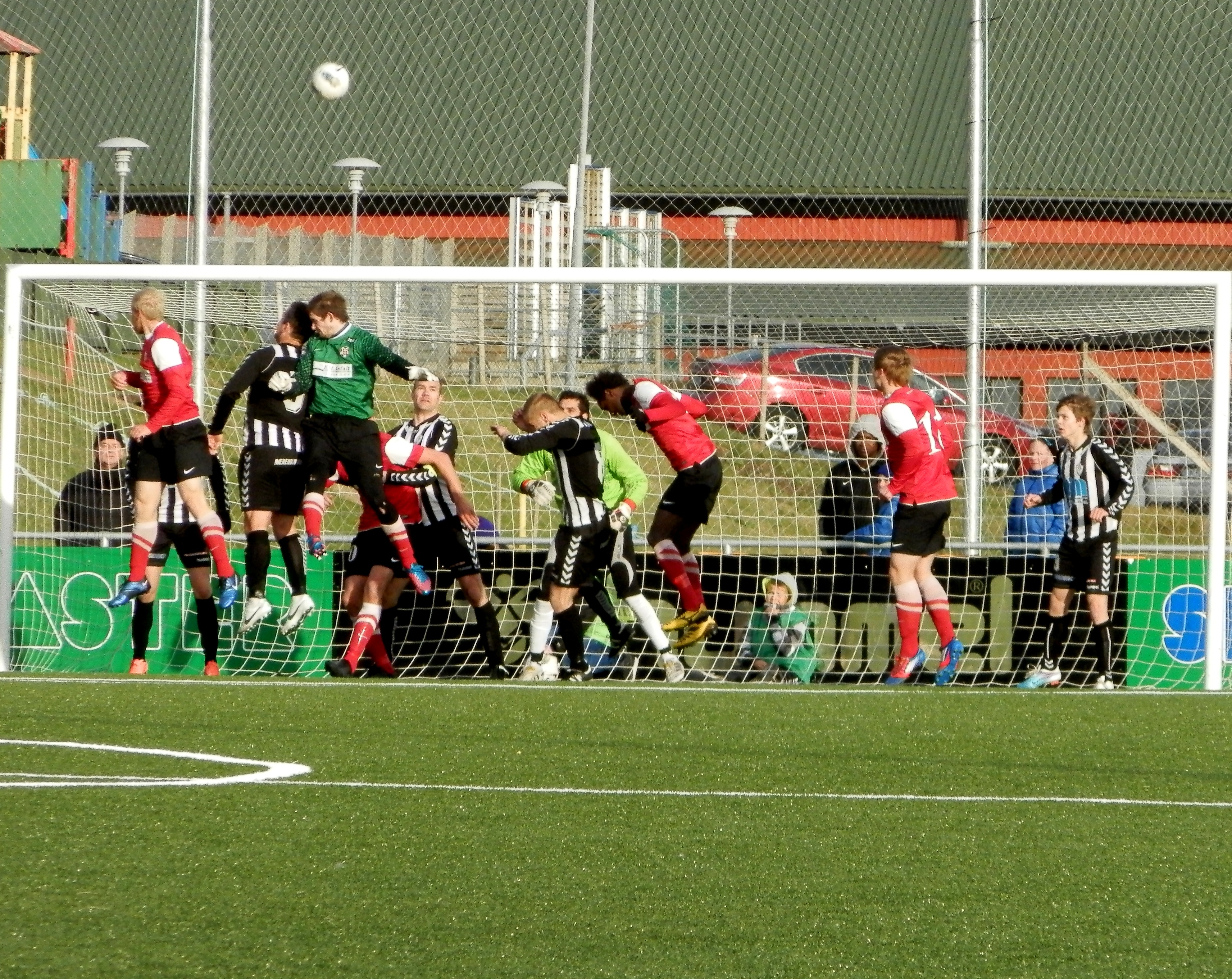 Football (soccer) match in Effodeildin (the men's best division of the Faroe Islands) between TB Tvøroyri and B68 Toftir. This was the final round of Effodeildin. Both these teams could be relegated, TB if they lost with four or more goals and B68 if they didn't win with at least four goals. The match got very exciting at towards the end, TB Tvøroyri had scored one goal and B68 none, but suddenly B68 started to score, and not only one but four goals, and now there was only one goal that could change everything, with three minutes to go. B68 scored their fourth goal in the 91 minute, the referee had added four minutes to the match. B68 didn't manage to get one more goal, and the TB players were very happy, not to be relagated to the second best division, and B68 players were devastated. This photo is from the final minutes, even the goal keeper of B68 Toftir is up front trying to make the final goal, which they so desperately needed. Føroyskt: Seinasta umfar í Effodeildini, sum varð leikt 6. oktober 2012. Henda myndin er frá dystinum millum TB og B68, sum var avgerðandi fyri bæði liðini, sum kappaðust um ikki at flyta niður í 1. deild. TB hevði betri møguleikar undan dystinum, tí teir høvdu betri málúrtøku. B68 skuldi vinna við í minsta lagi fýra málum, men tað kláraðu teir akkurát ikki, teir vunnu dystin 4-1, men tað var ikki nokk til at vera verandi í deildini, so teir spæla í 1. deild í 2013, meðan TB heldur fram í Effodeildini.